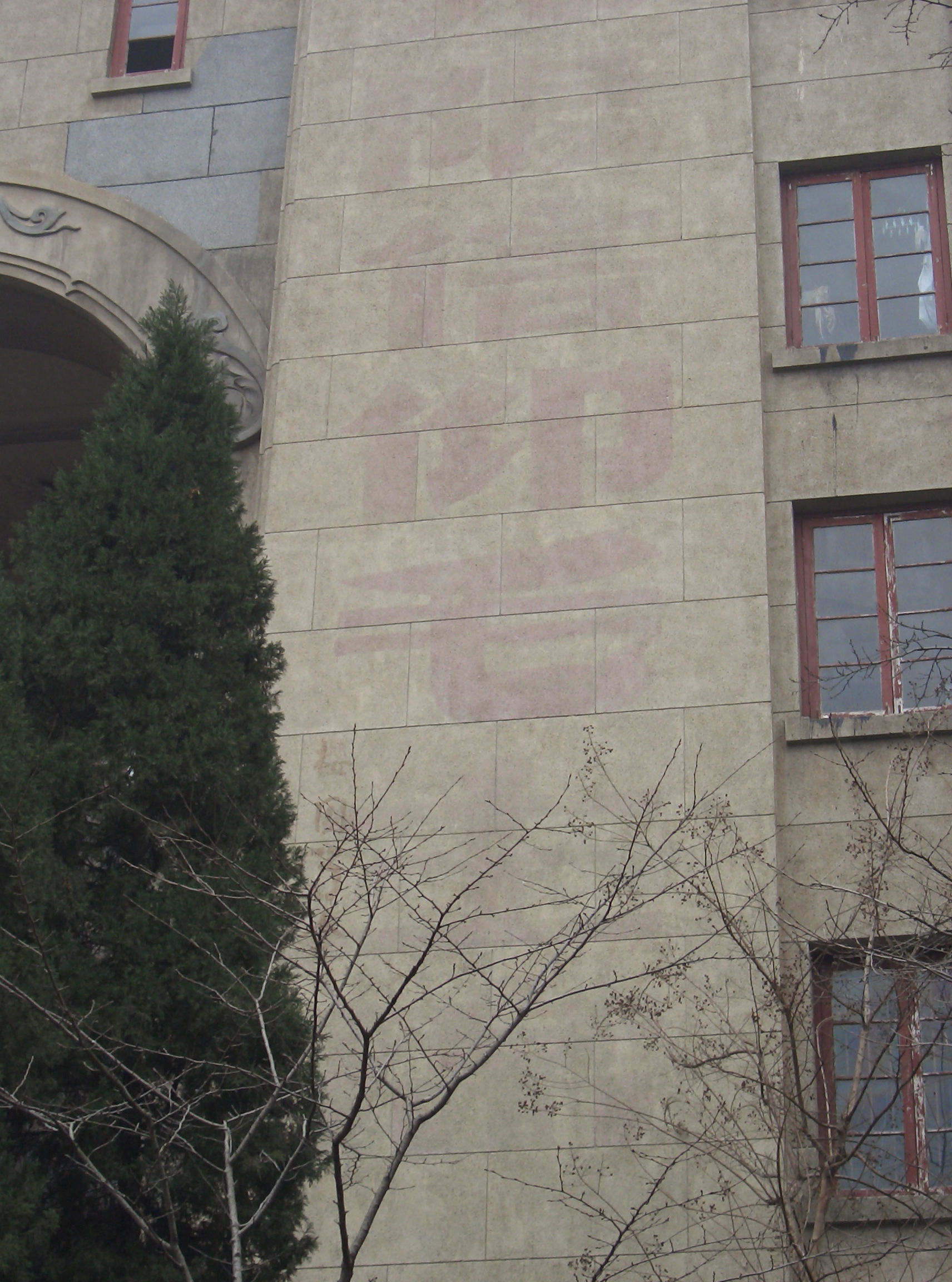 A close examination of this wall reveals faded Chinese characters. During the Cultural Revolution it was popular to paint revolutionary slogans on walls, but as the decades have passed these slogans have lost favour and this one has had an attempted removal. Wuhan University, Hubei province, China. The slogan reads "Boundless faith in Chairman Mao", from top to bottom: 无限 - (the first character is cut from the image) - unlimited, boundless, endless, infinite 信仰 - conviction, trust in, faith in 毛主席 - (the last two characters are obscured by the branches) - Chairman Mao